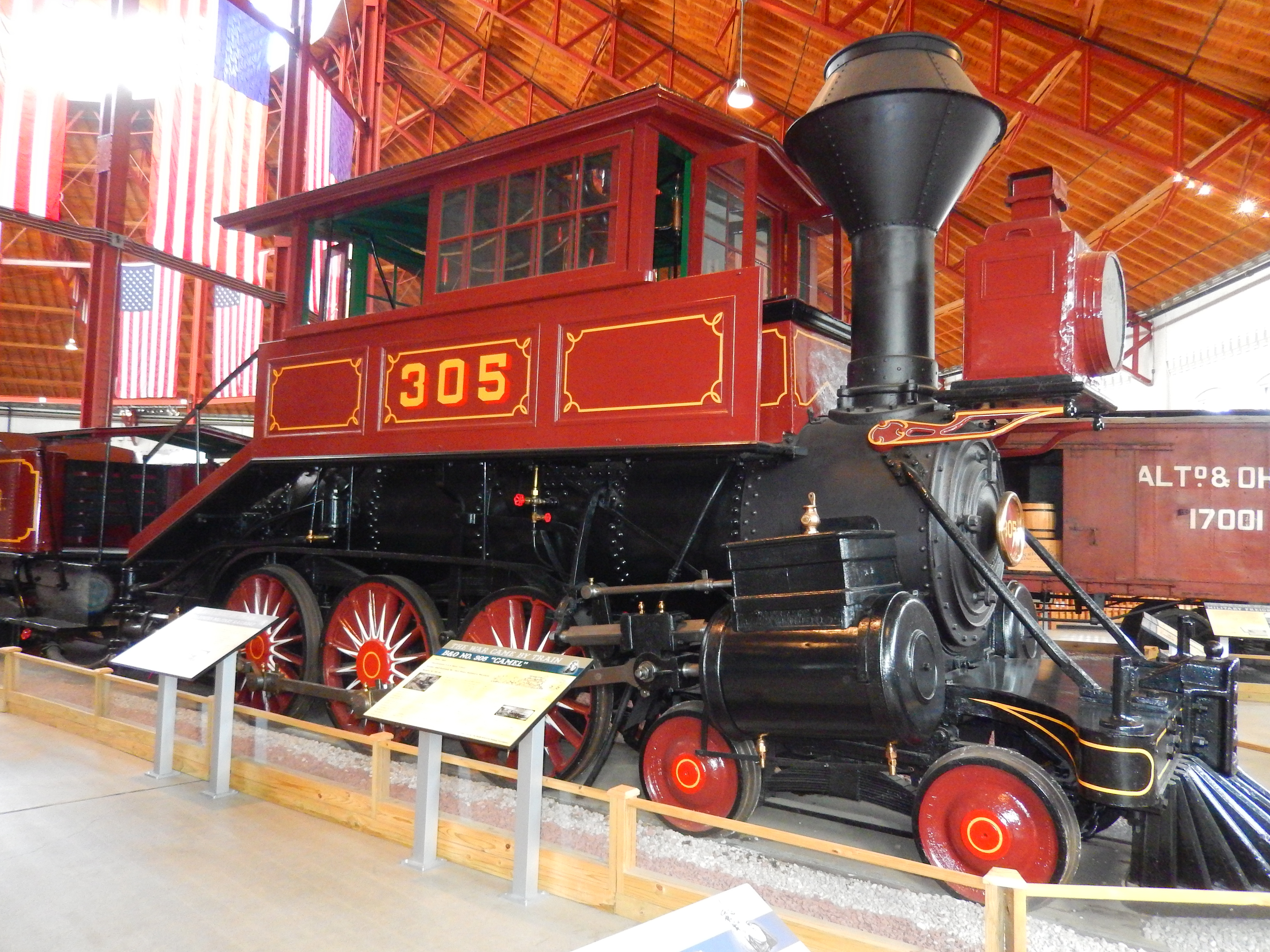 4-6-0 Davis Camel Ten Wheeler B&O #305, (previously # 217), built in 1869, engineer's cab positioned above the boiler. Owned by the B&O Railroad Museum.